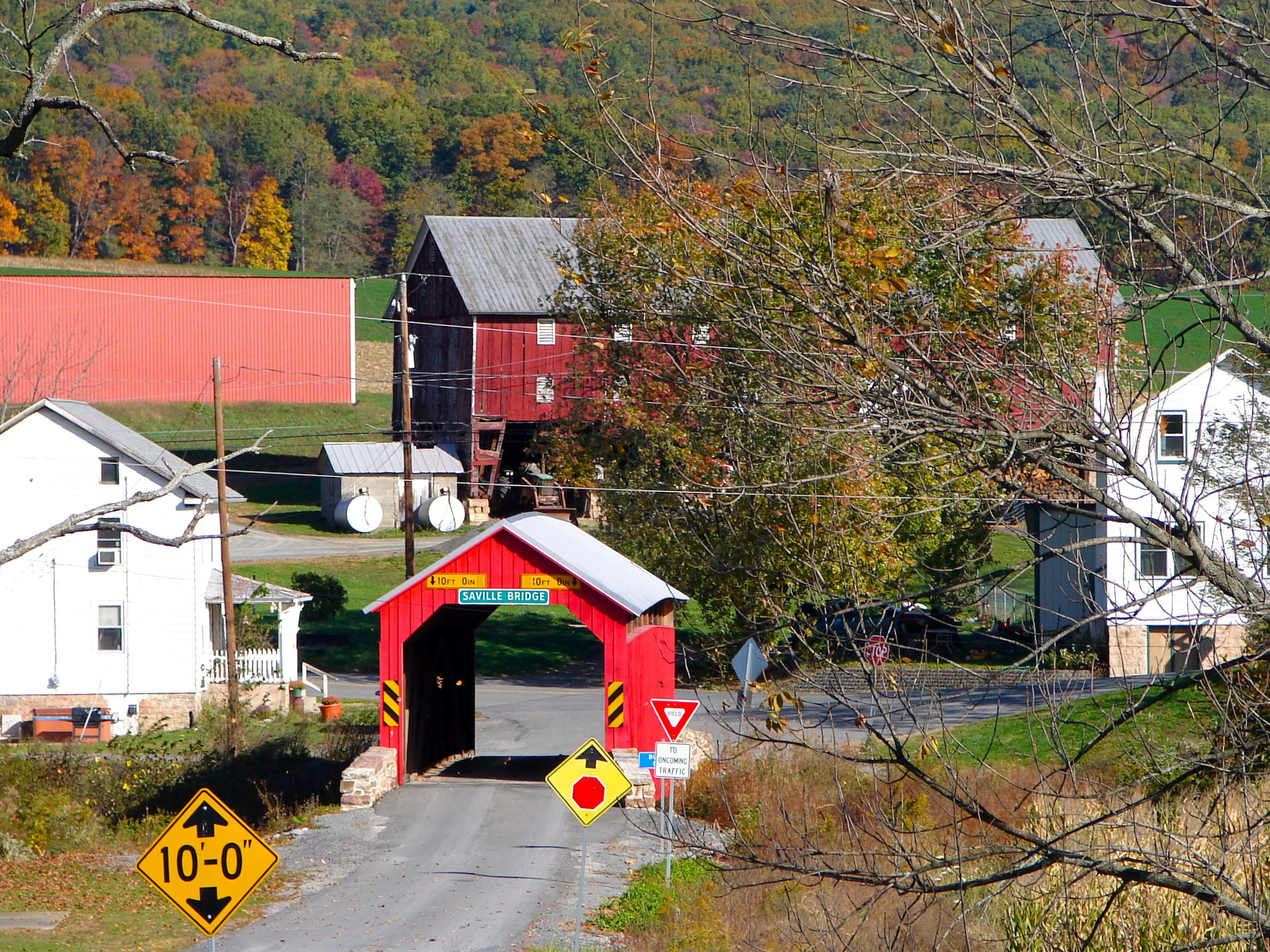 Saville Covered Bridge on the NRHP since August 25, 1980. On Saville Road aka Legislative Route 50037 Saville Township, Perry County, Pennsylvania. The prettiest bridge in Perry County. See also Saville_PA_C_Bridge_2.JPG